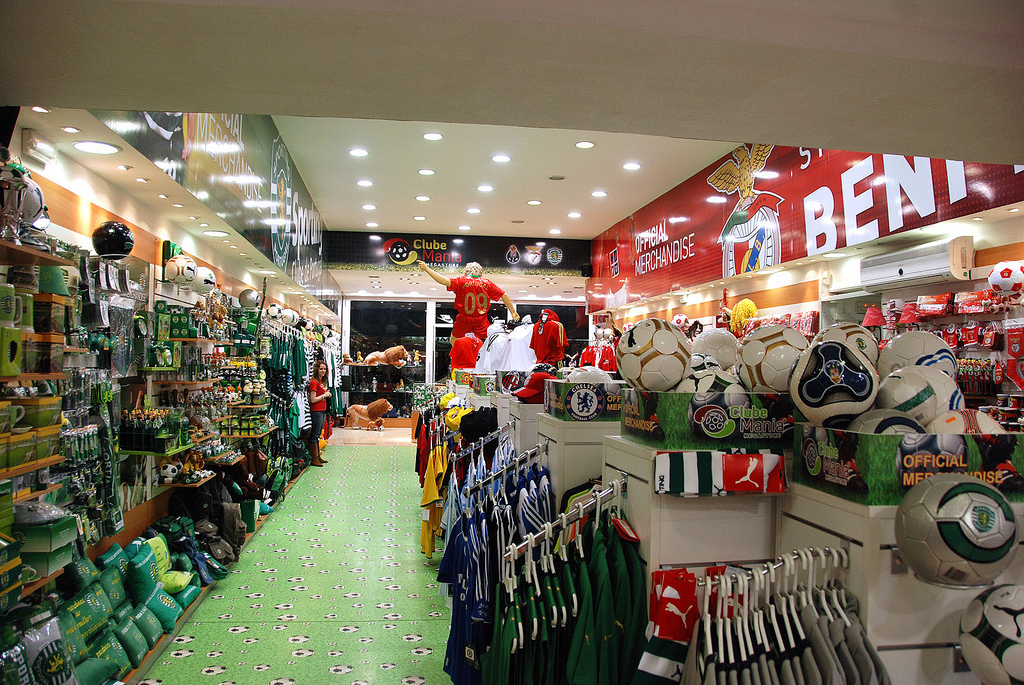 Benfica and Sporting merchandising.